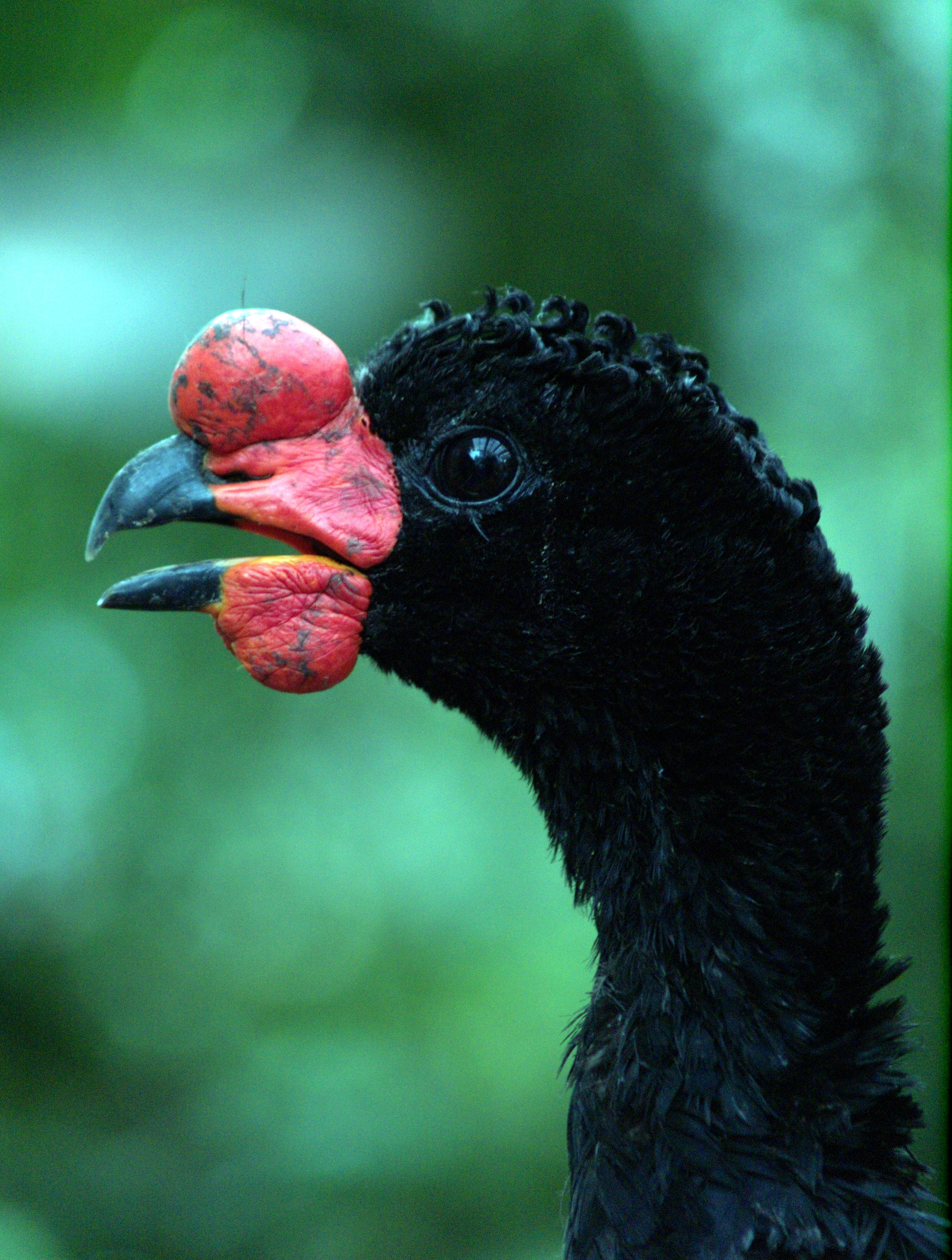 Adult male Wattled Curassow at the National Aviary, Pittsburgh, Pennsylvania, USA.